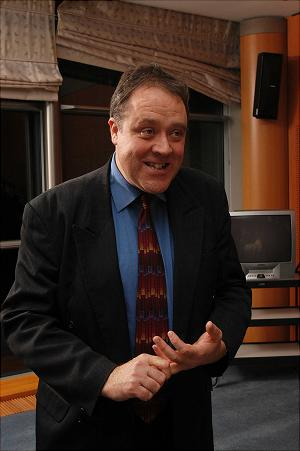 Richard Howitt